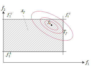 Worst-case distance (illustration)